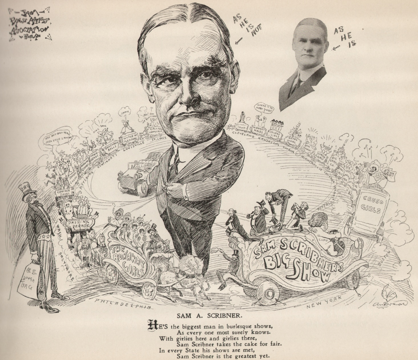 Cartoon of burlesque entrepreneur Sam A. Scribner (1859 - 1941), from Them As Is Because, 1911 NYC Vaudeville a Local Vanity Cartoon Book with caricatures of New York vaudeville personalities